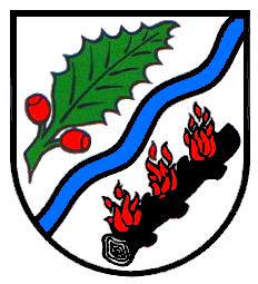 Coat of arms of Engelsbrand